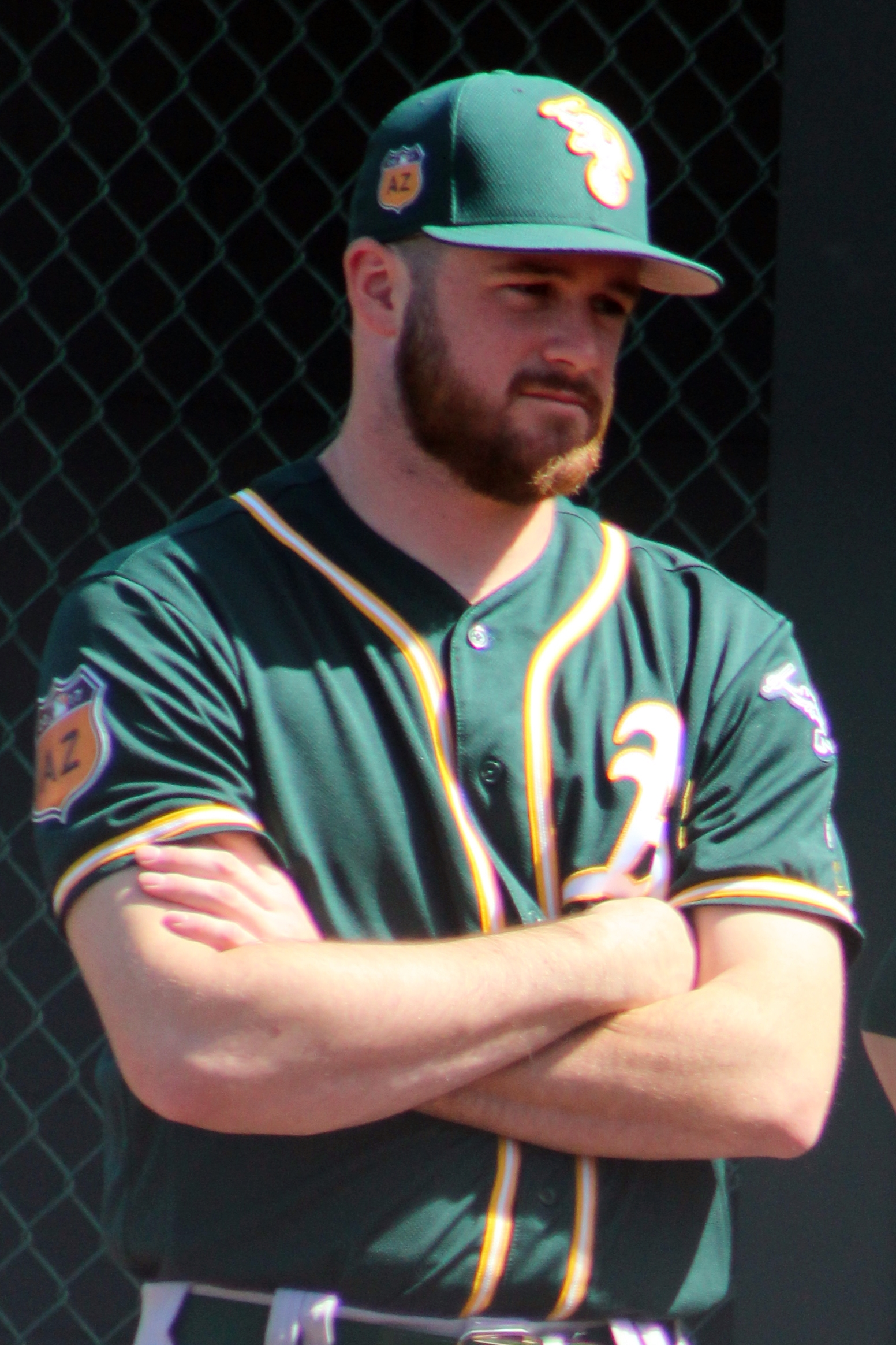 Pitcher Bobby Wahl - Oakland A's at Arizona Diamondbacks: Spring Training - 3/7/17